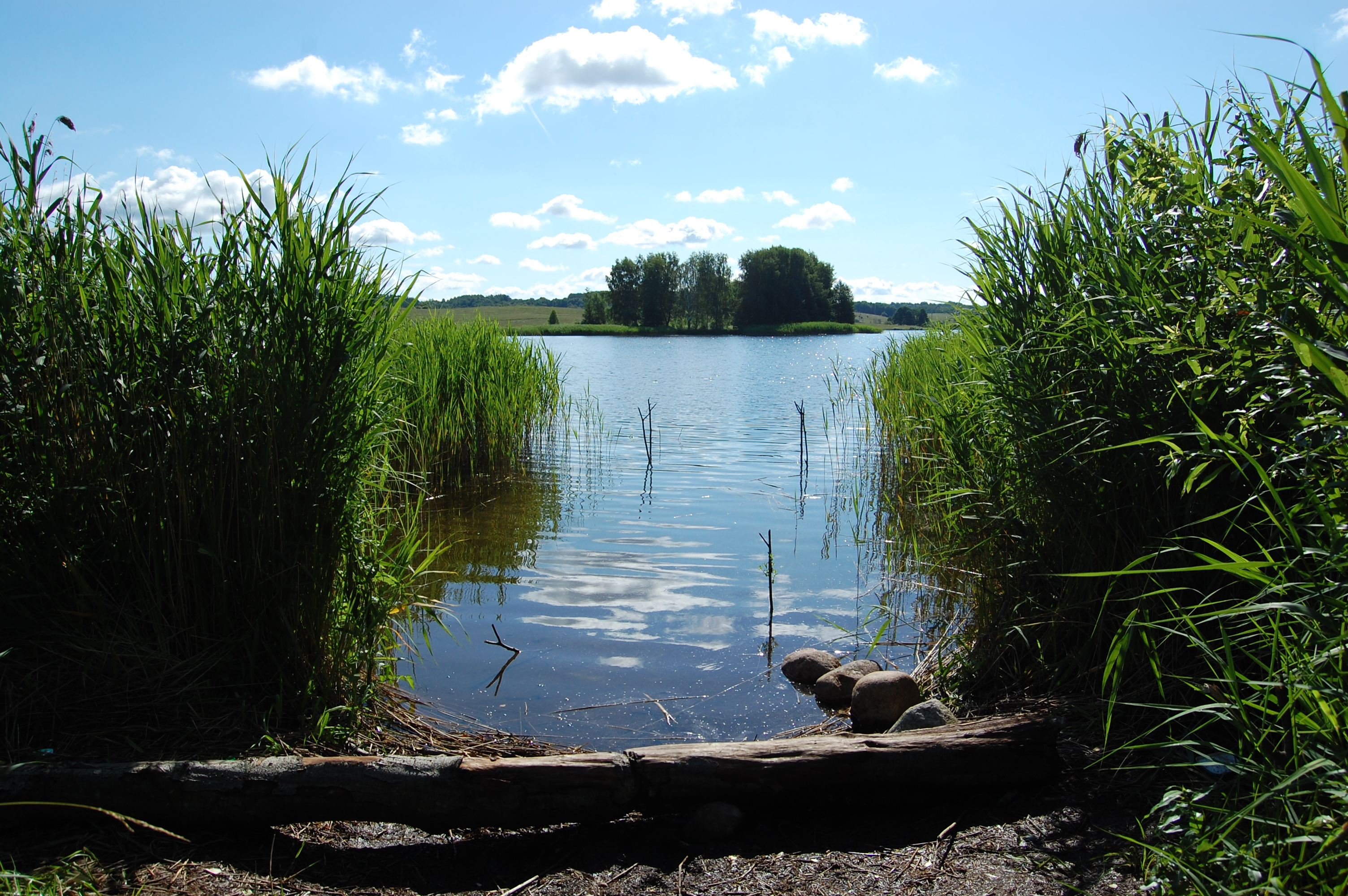 View of Elektrėnai Reservoir shore